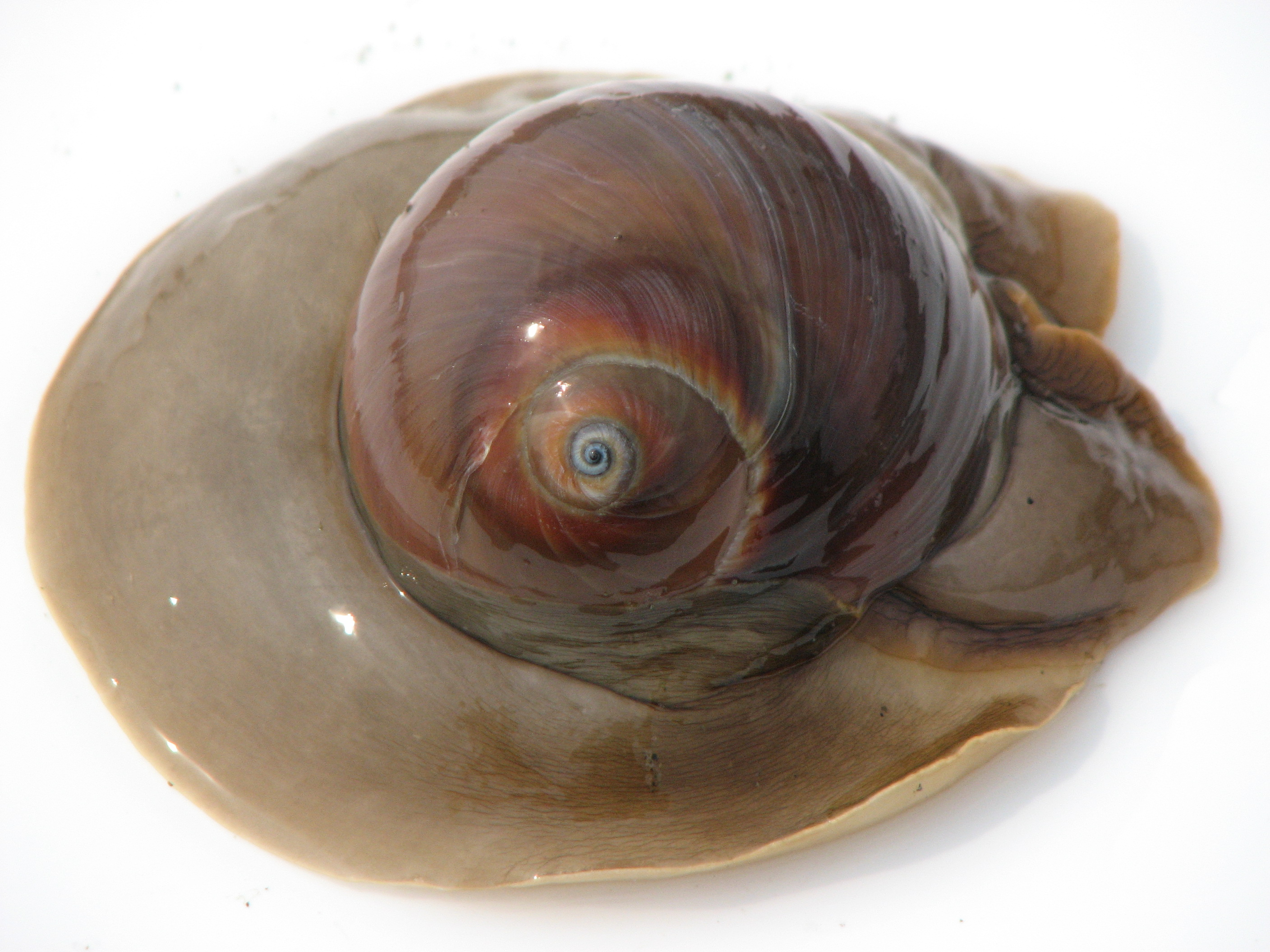 Glossaulax didyma (Röding, 1798) (synonyms: Neverita didyma (synonyms : Polinices didyma; Glossaulax didyma didyma )at Makuhari, Chiba Japan.